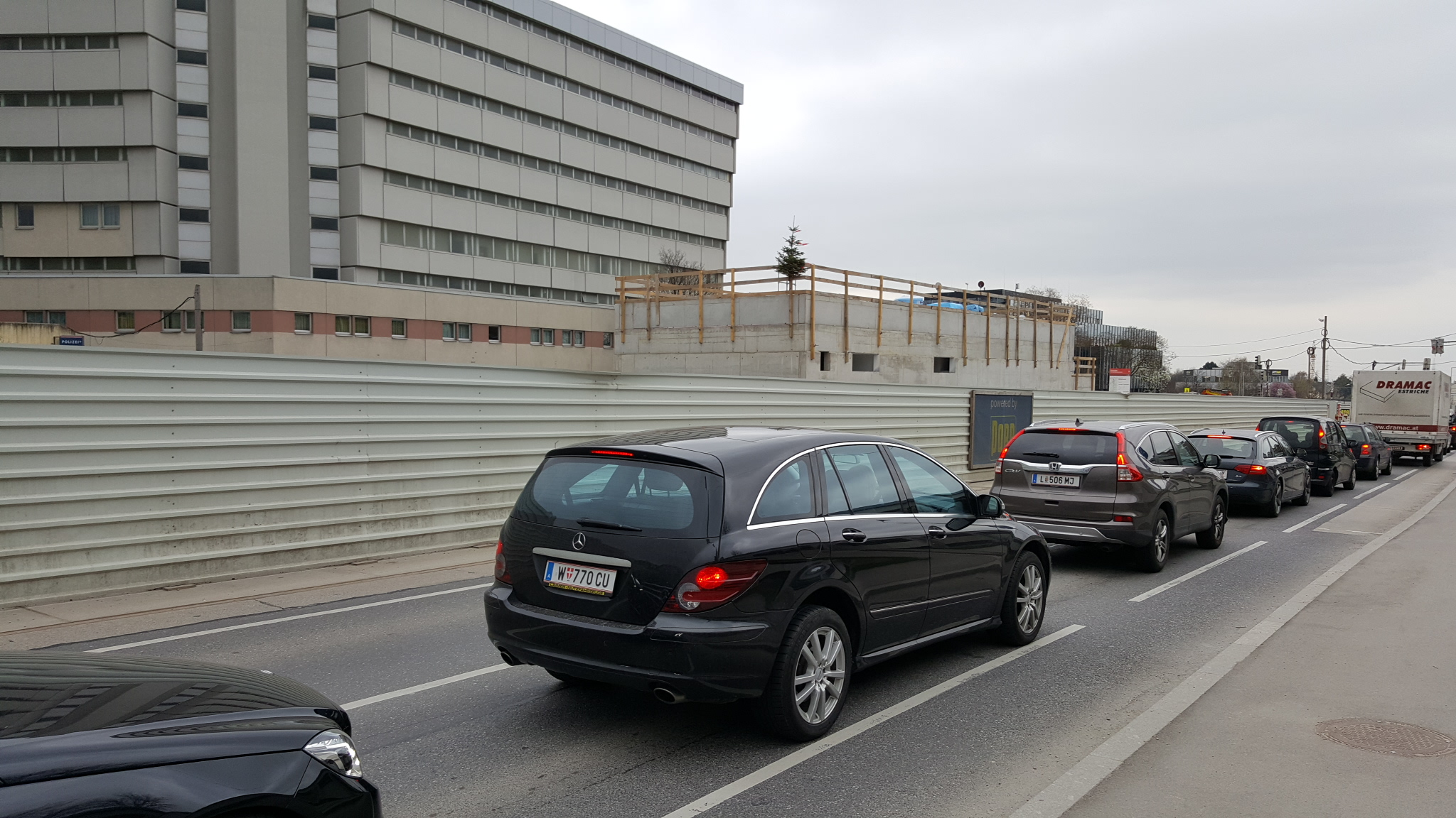 Extension of Viennese metro line U1 under construction